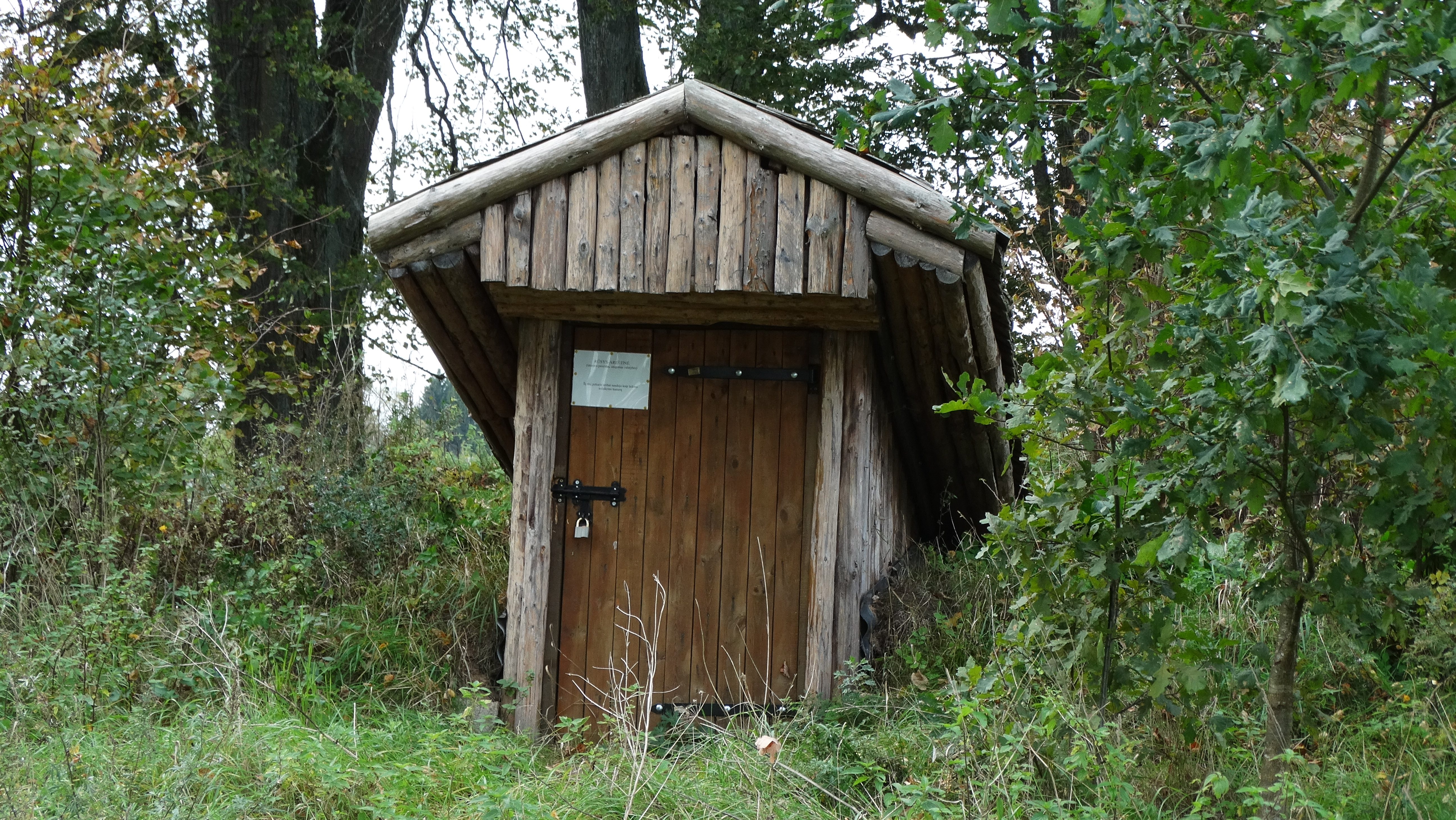 Didžiosios Zariškės, Kazlų Rūda municipality, Lithuania